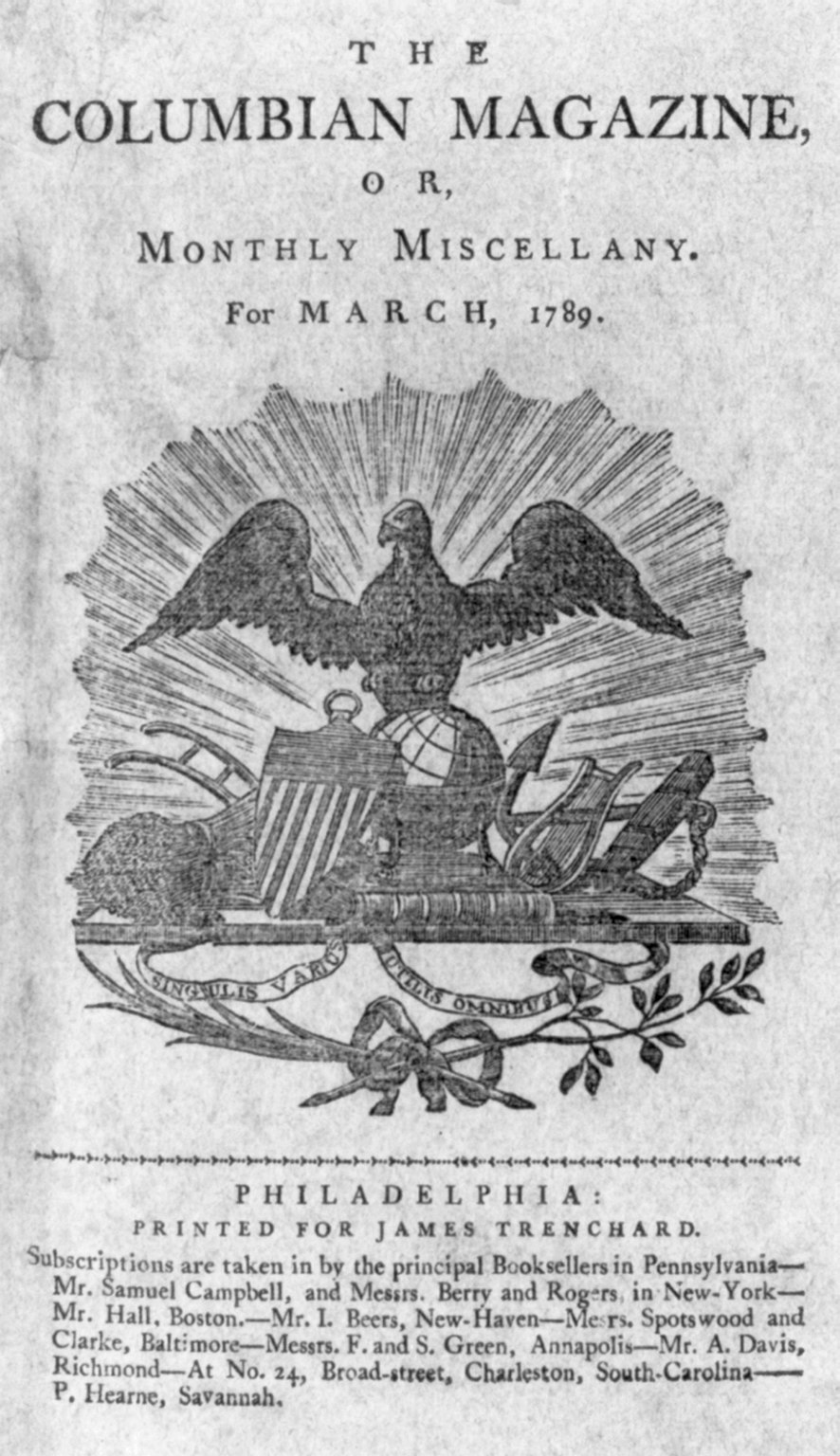 Title: Ornament for title page of The Columbian Magazine for the year 1789 Abstract/medium: 1 print : woodcut.